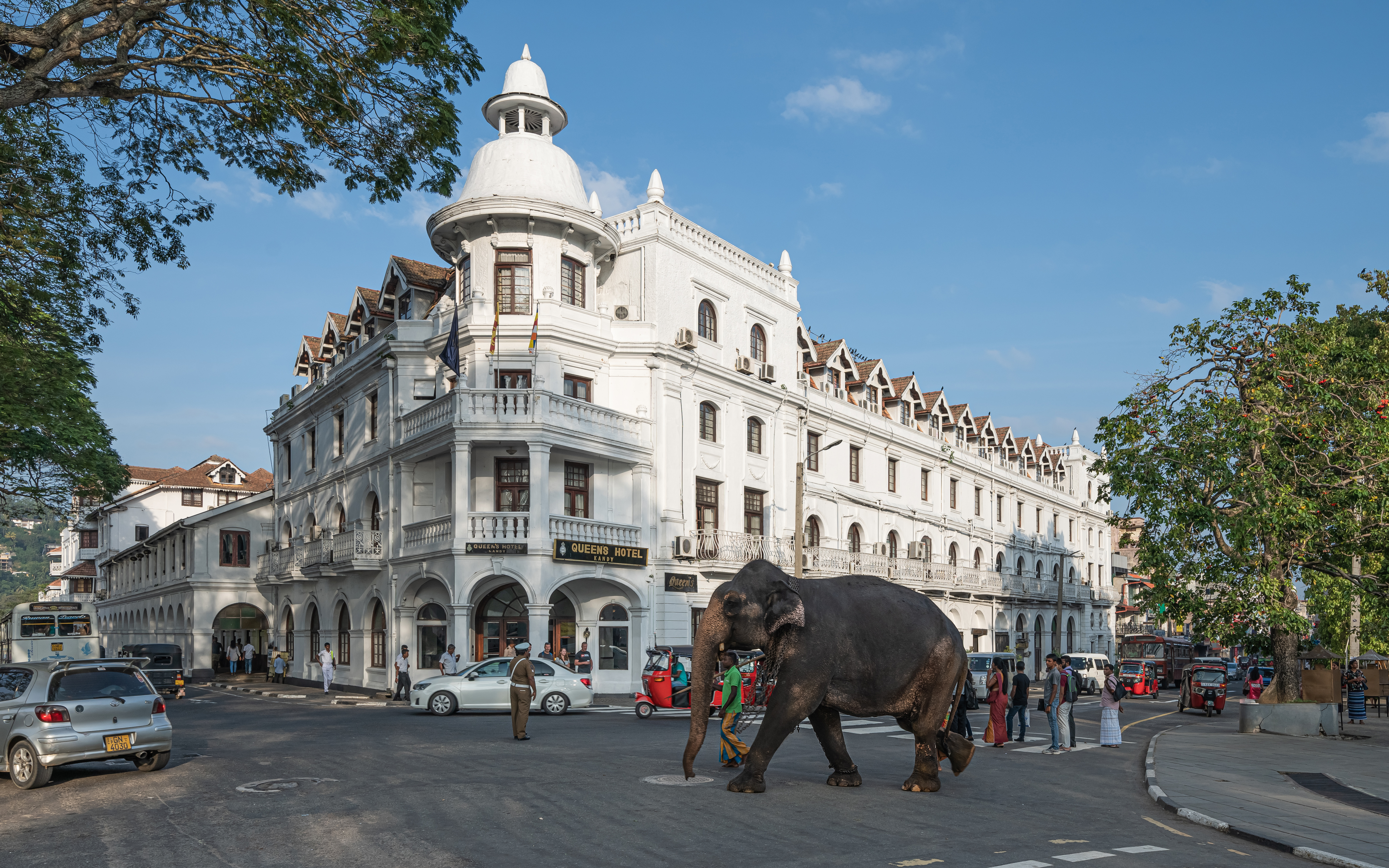 Queen's Hotel in Kandy, Sri Lanka